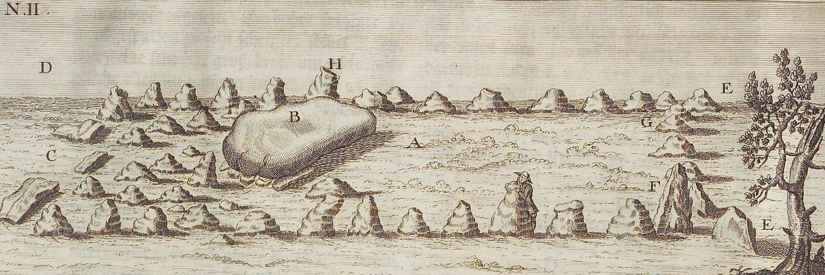 Now destroyed Dolmen at Garlipp, depicted in Johann Christoph Bekmann, Bernhard Ludwig Bekmann: Historische Beschreibung der Chur und Mark Brandenburg nach ihrem Ursprung, Einwohnern, Natürlichen Beschaffenheit, Gewässer, Landschaften, Stäten, Geistlichen Stiftern etc. [...]. Vol. 1, Berlin 1751